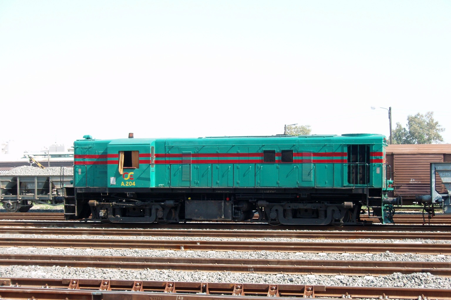 GREECE: ALCo DL532B diesel locomotive of OSE at Ag. Ioannis Rentis Station.